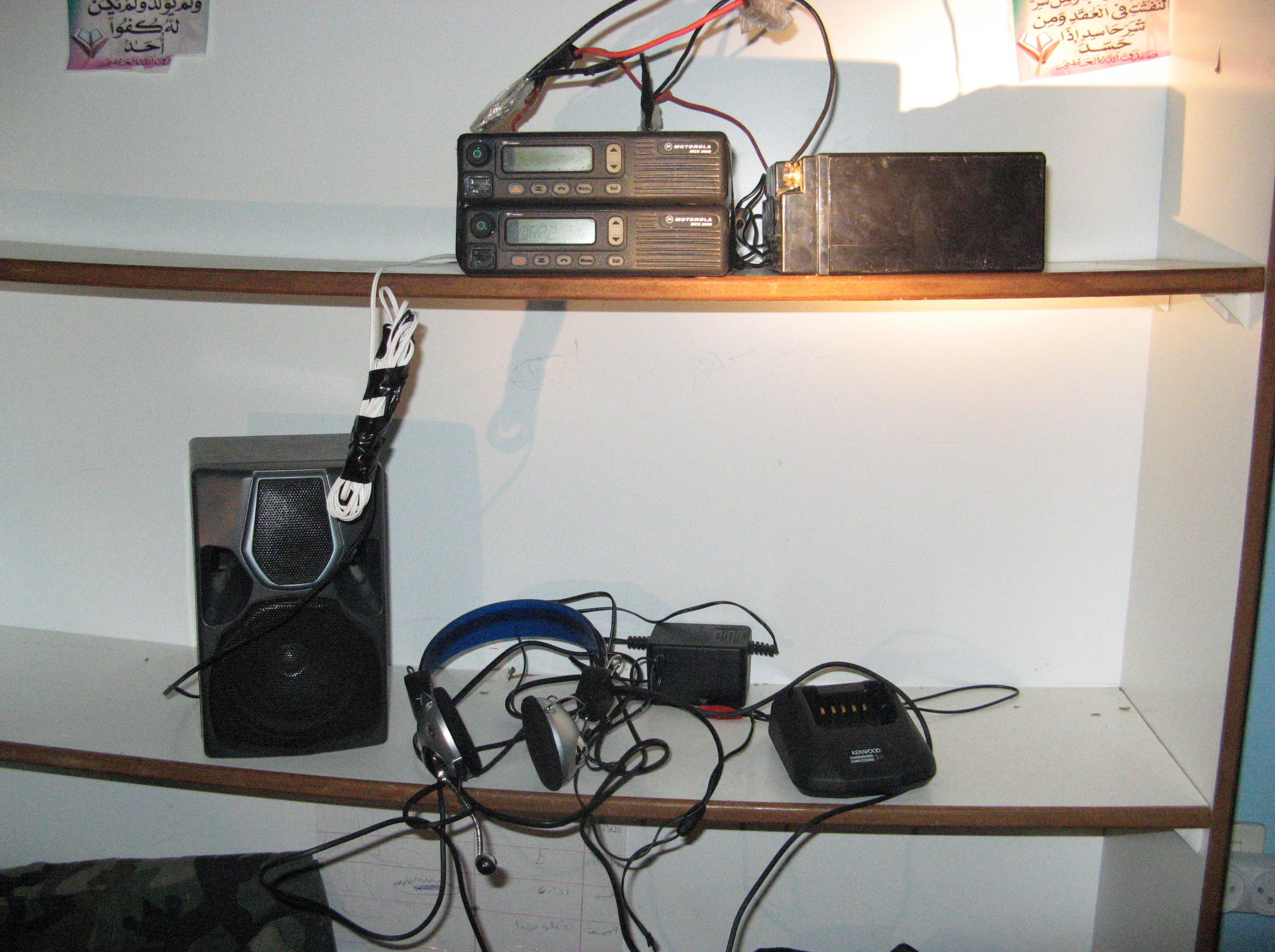 January 15, 2009 Israeli Givati forces uncovered an eavesdropping station run by Hamas in Gaza City during Operation Cast Lead.